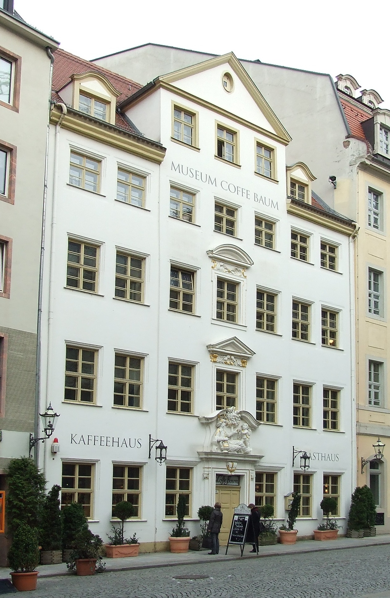 Museum Coffe Baum, Leipzig/Germany